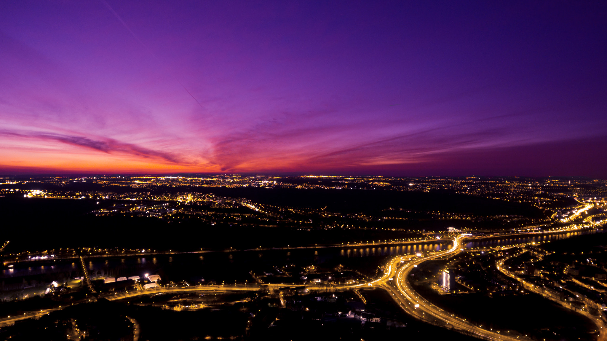 500px provided description: Sunset Over Prague [#sky ,#landscape ,#hdr ,#city ,#Aerial]